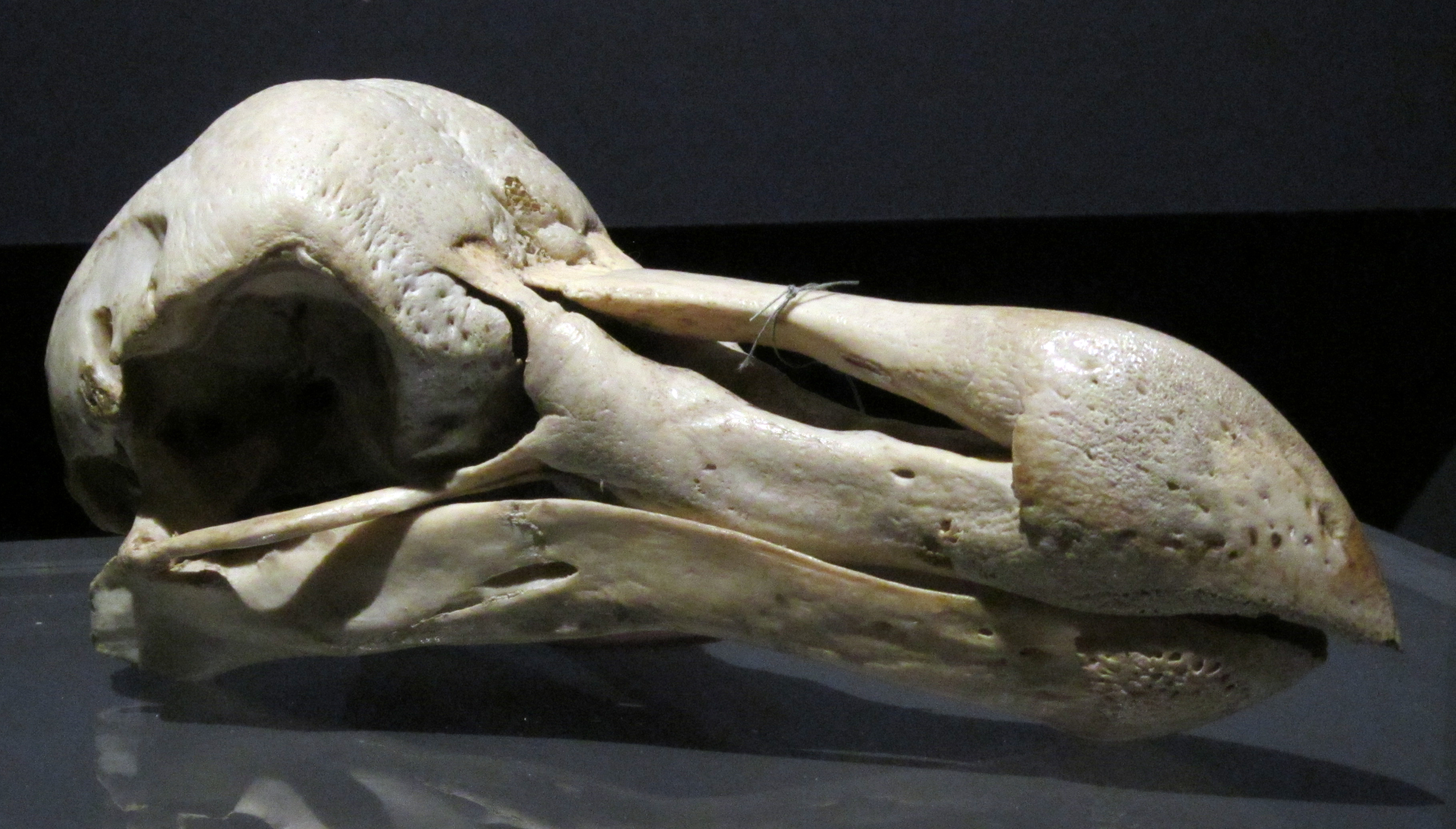 The dodo skull in the Zoological Museum of Copenhagen, one of only two complete skulls of dodos taken to Europe in the 17th century.